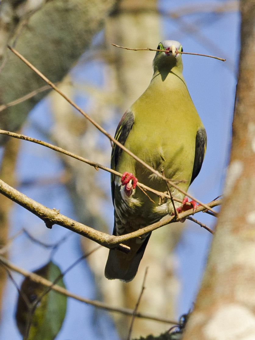 Thick-billed Green-Pigeon (Treron curvirostra) at Kaeng Krachan National Park, Thailand